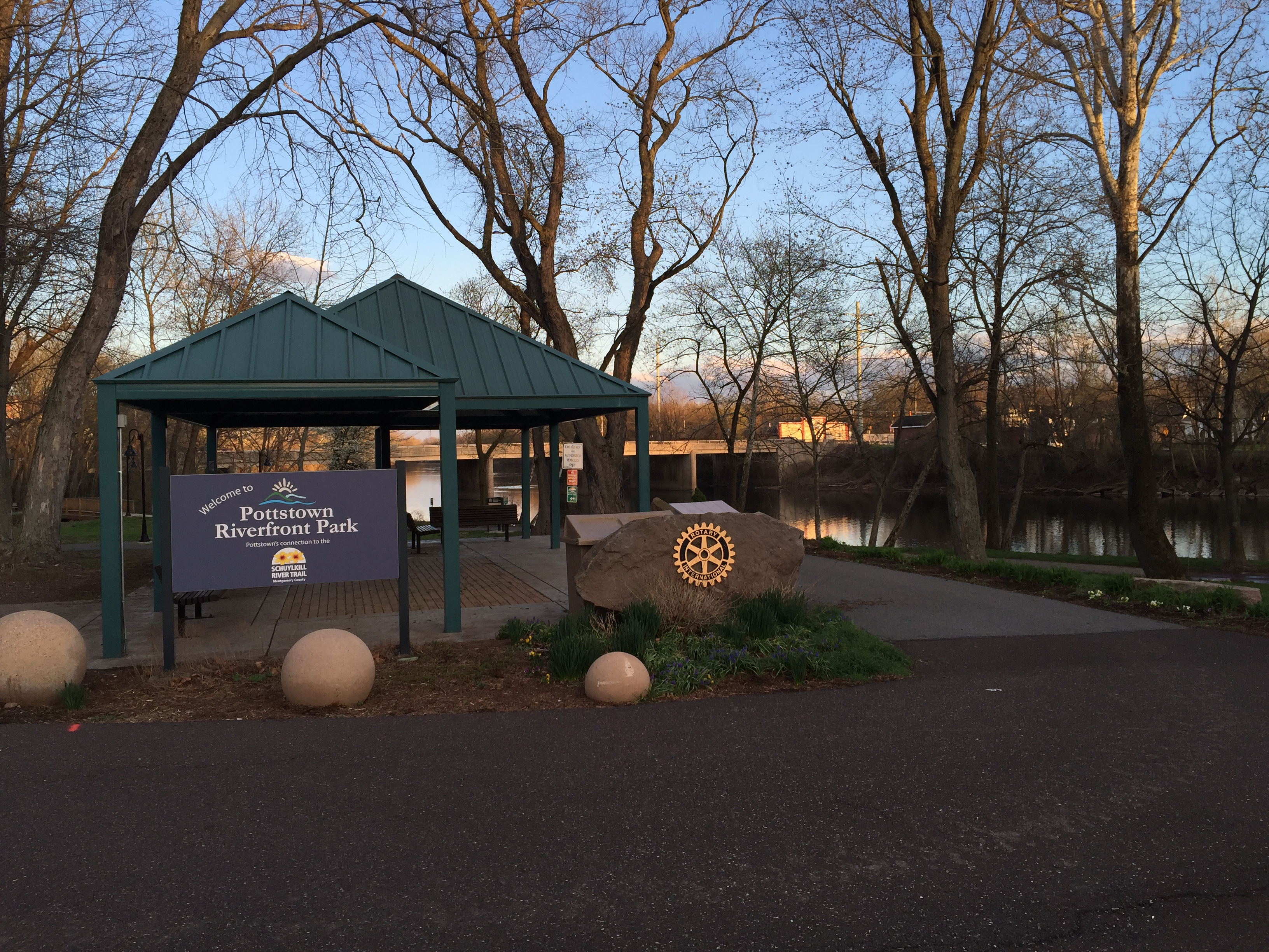 Pottstown Riverfront Park in April 2016